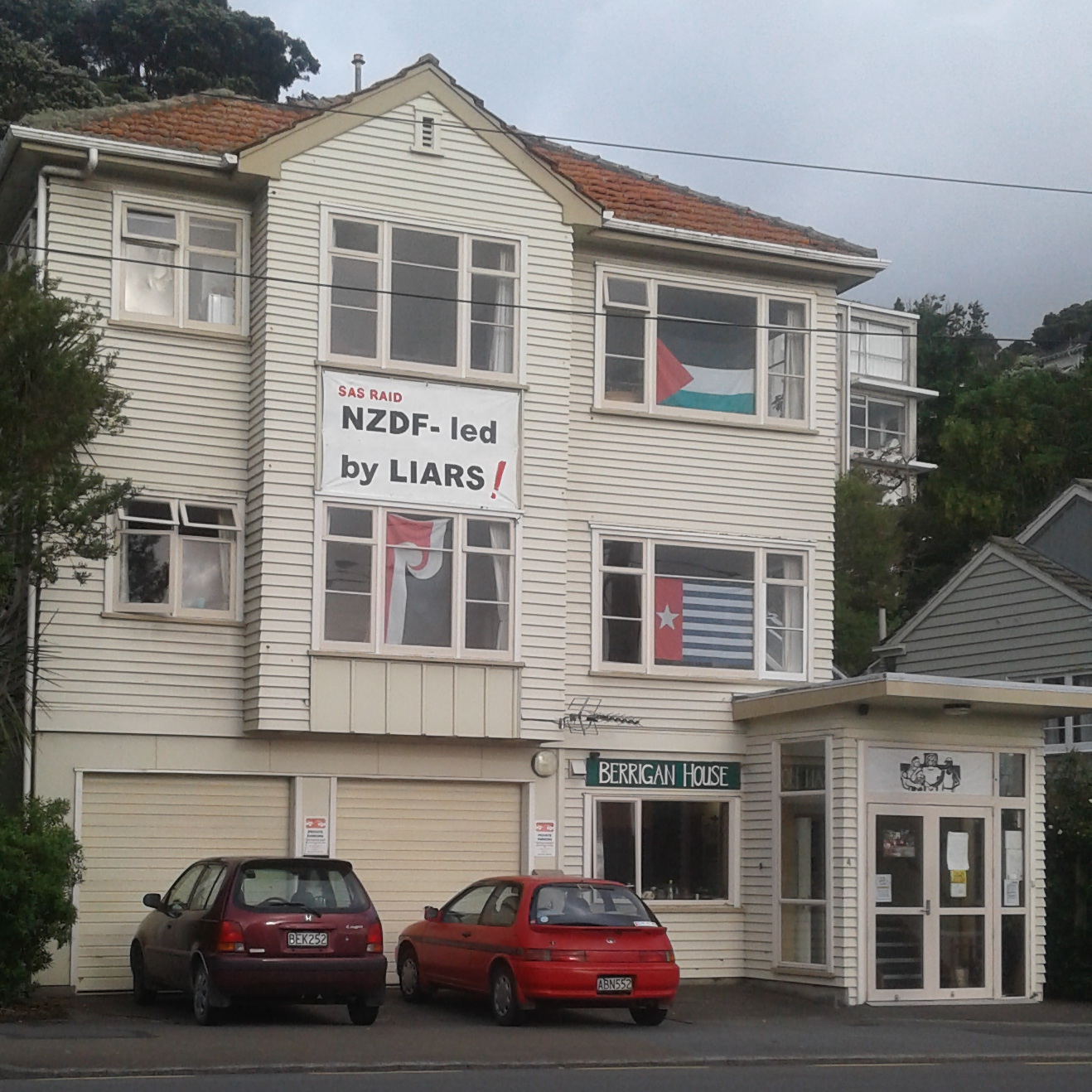 Berrian House, a Catholic worker movement house on campus at Victoria university of Wellington.